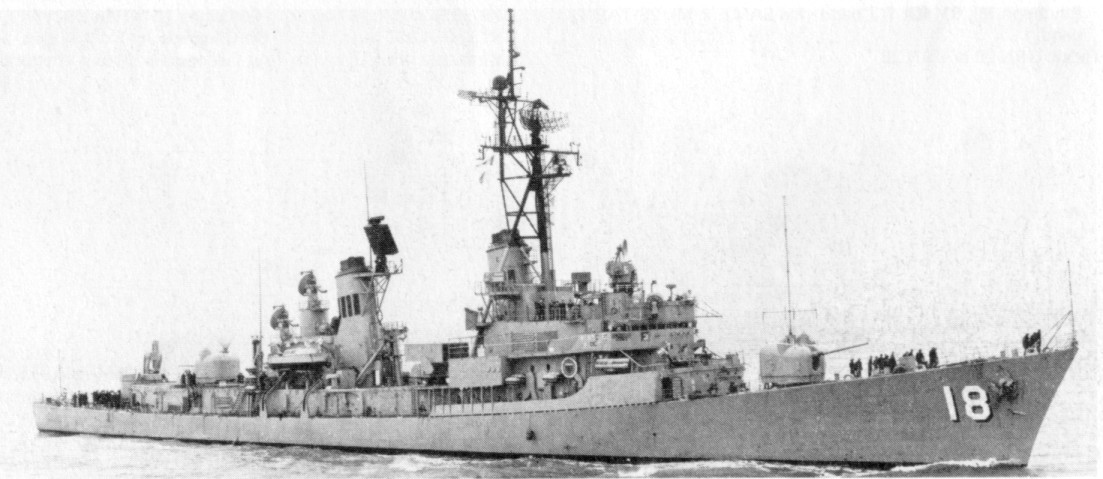 The U.S. Navy guided missile destroyer USS Semmes (DDG-18) underway at sea, circa in the 1970s.